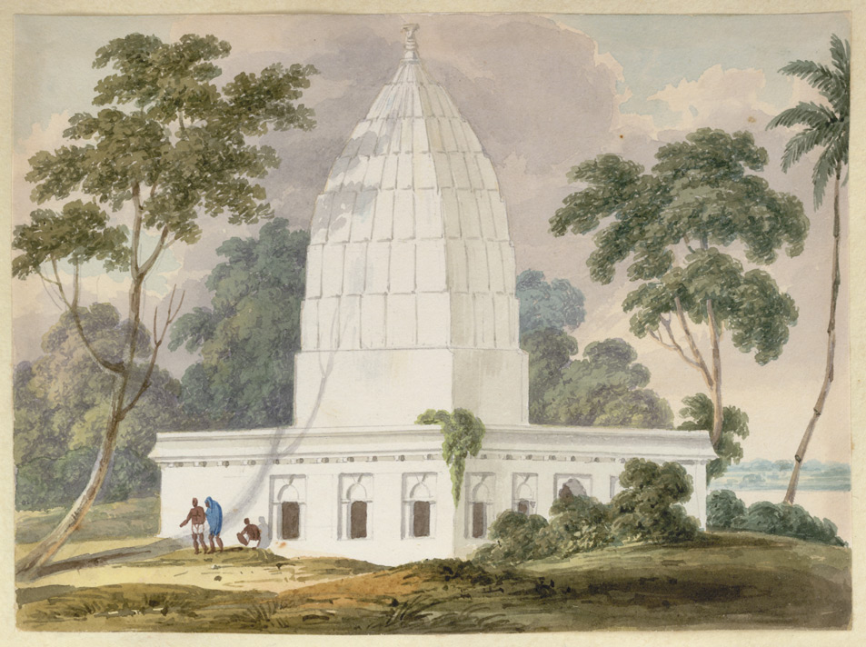 September 1820 Water-colour drawing by Sir Charles D'Oyly (1781-1845) of monument erected by the natives of the Bhagalpur (Bhaughulpoor) District, Bengal, India, to the memory of Augustus Clevland (1755-84) of the Bengal Civil Service, Collector and Judge at Bhagalpur. Two memorials were erected to him in Bhagalpur, one in stone sent by the Court of Directors of the East India Company from England, the other depicted here, a shrine built by his native staff and acquaintances. One of 28 water-colours by Sir Charles D'Oyly during his voyage along the Rivers Bhagirathi and Ganges, dated August to October 1820. British Library, shelfmark: WD 4404